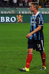 Elliot Käck